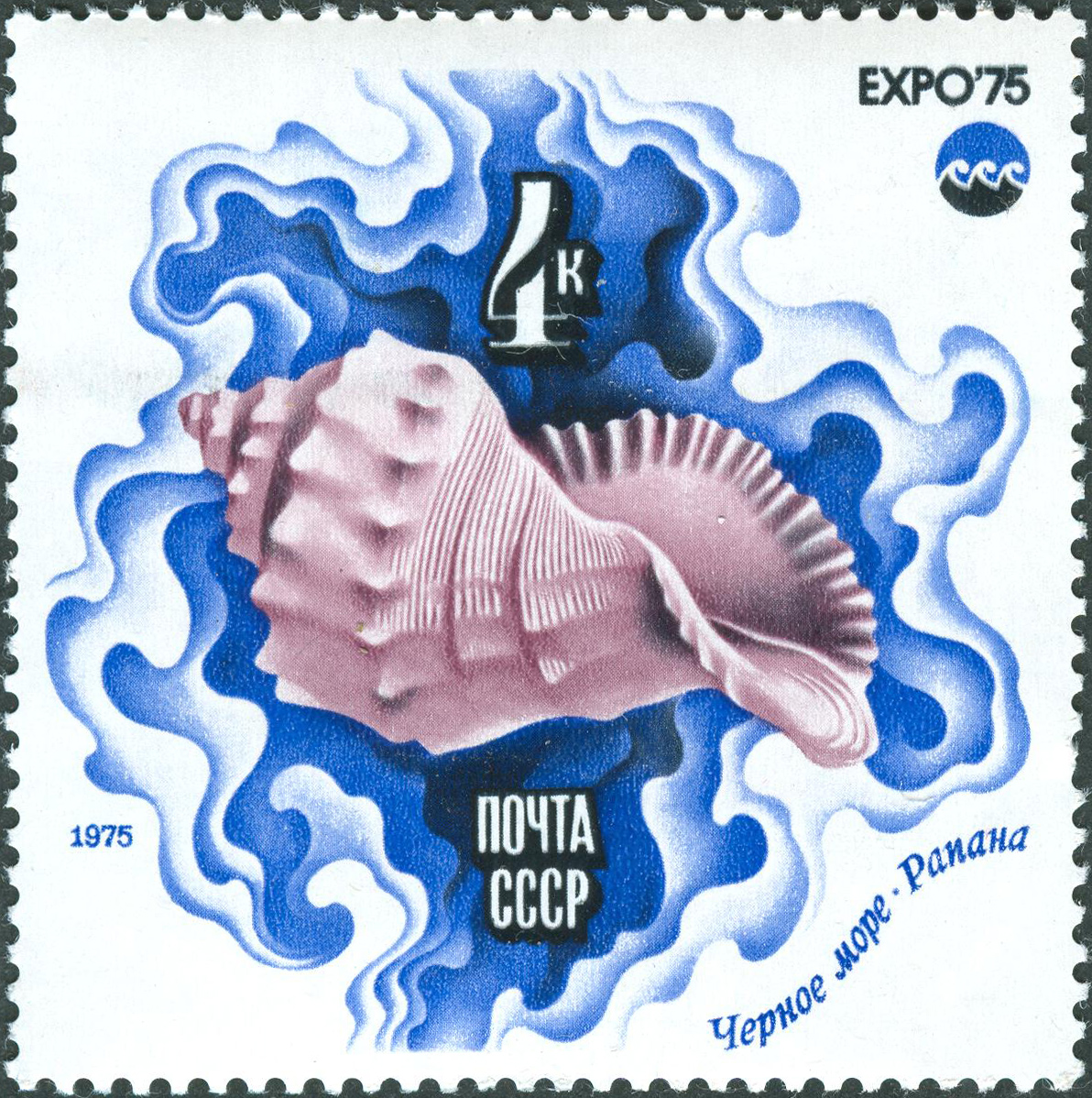 Stamp of the Soviet Union, 1975. EXPO'75. The Black Sea, Rapana